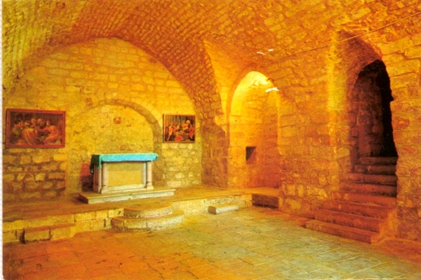 Nazareth, The Synagogue